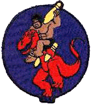 Emblem of the 327th Bombardment Squadron (World War II)